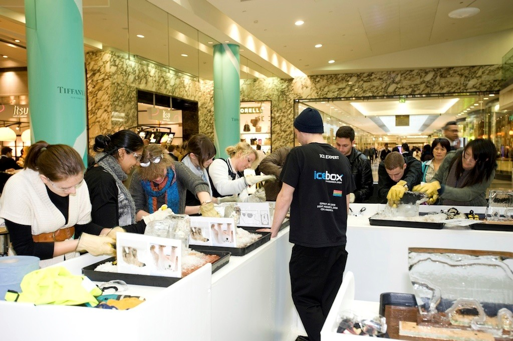 Ice sculpting lessons at 2011London Ice Sculpting Festival